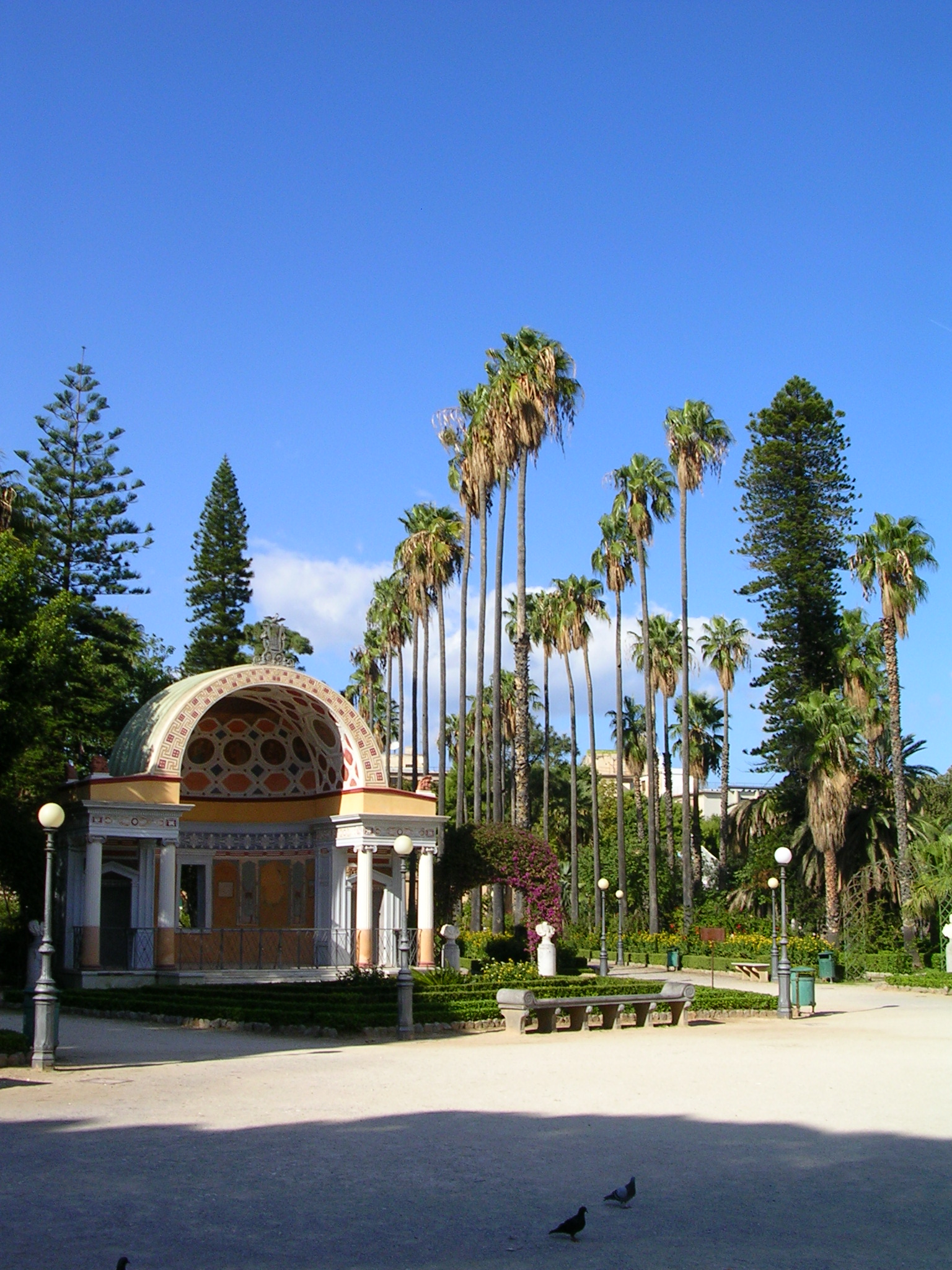 Northwestern Exedra of Villa Giulia - Palermo - Italy